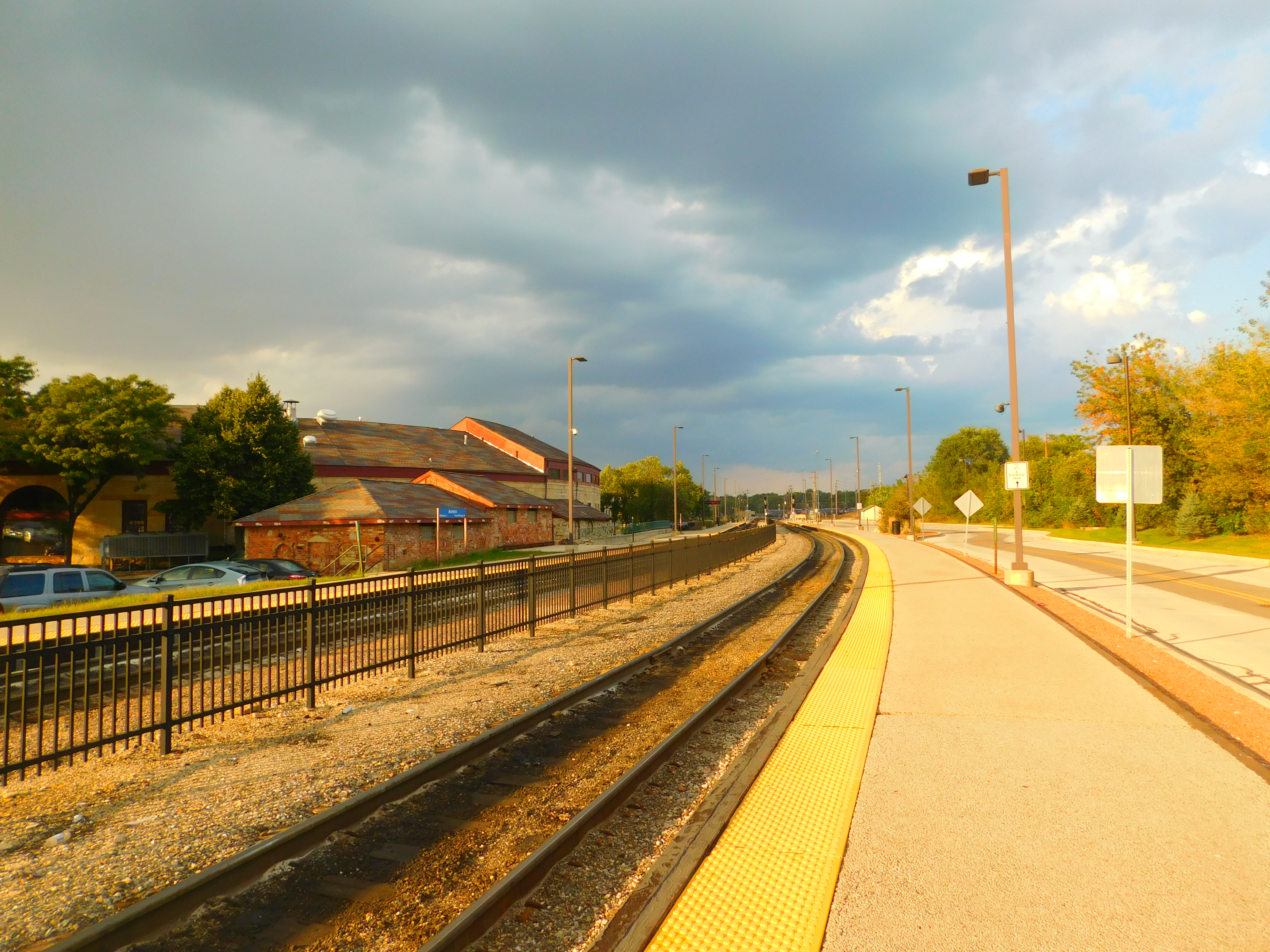 The Metra station terminal for Aurora, Illinois.